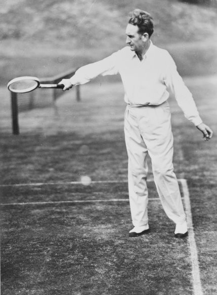 A digital image of the portrait is available from the National Library of Australia (NLA) website. The NLA image contains spurious indexing information along the bottom. This image is a cropped version that eliminates these.